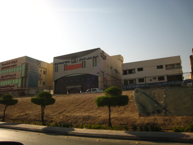 Service Road...I like this idea coz it decrease the traffic jam